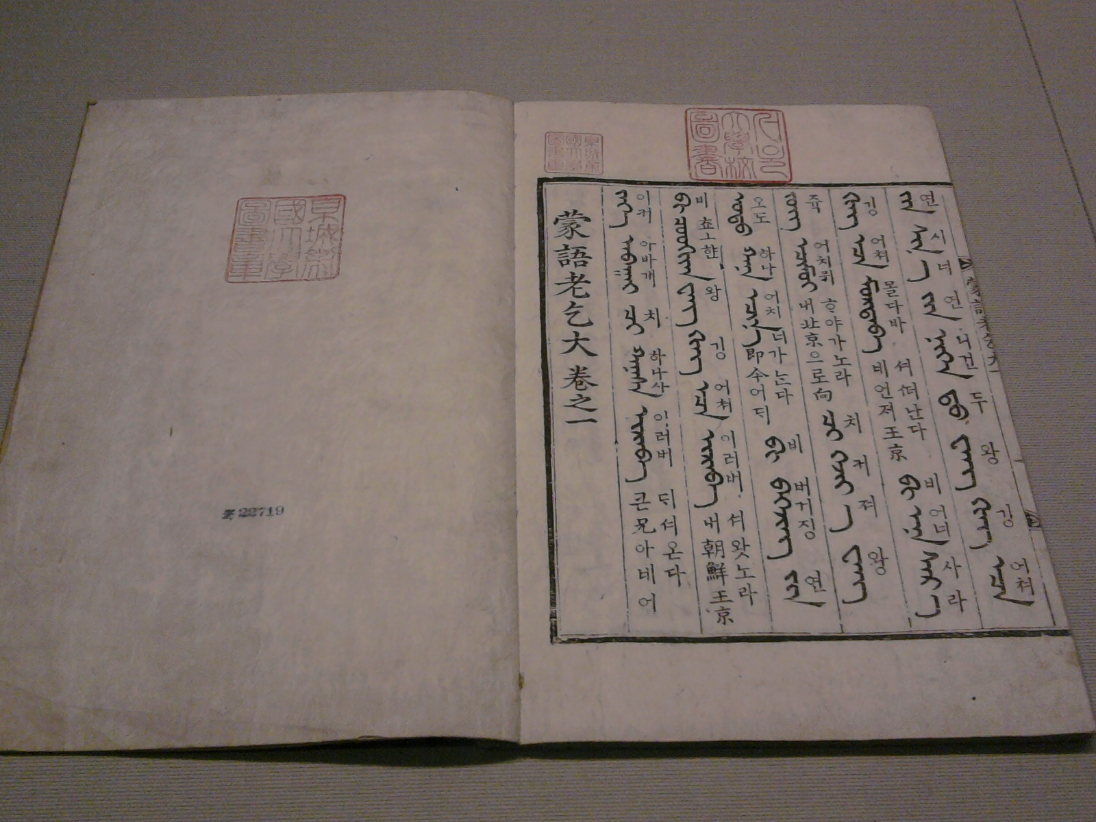 Mongeonogeoldae (蒙語老乞大/몽어노걸대), first roll (卷之一), displayed in Seoul National University Kyujanggak Institute for Koreanology Studies. Text is witten in hanja, hangeul and mongol bichig (mongol writting) that appear at Gengis Khan time.